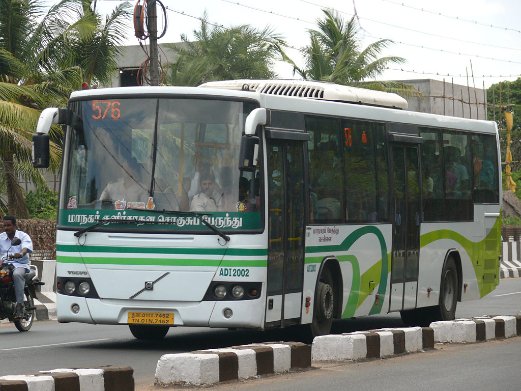 chennai volvo bus